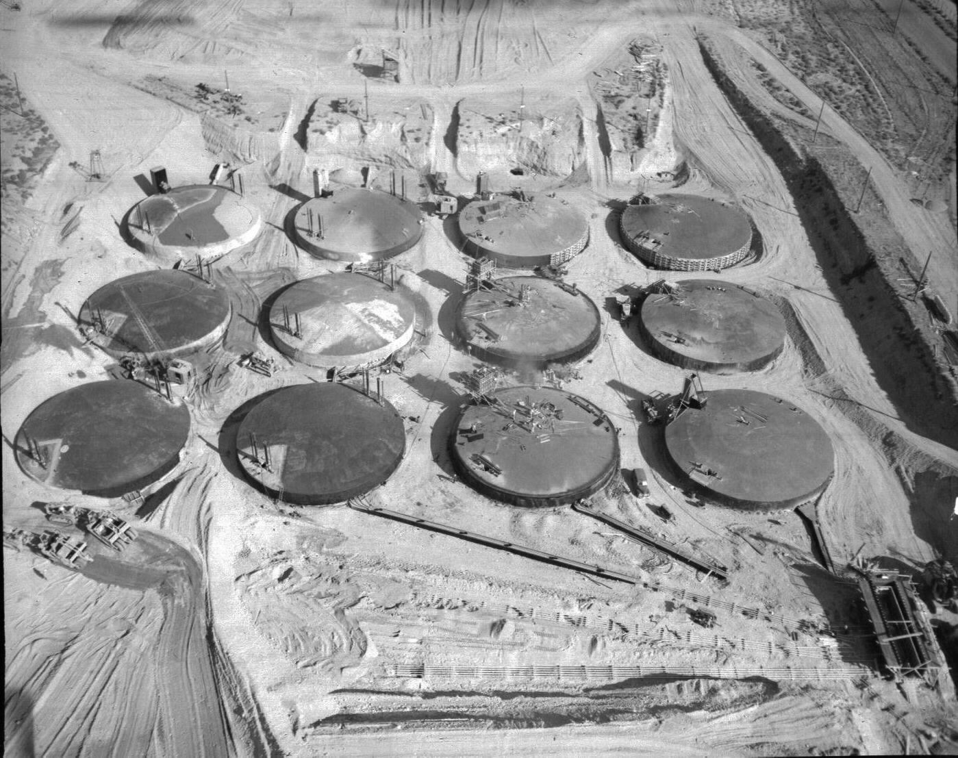 Tank farm at the Hanford site